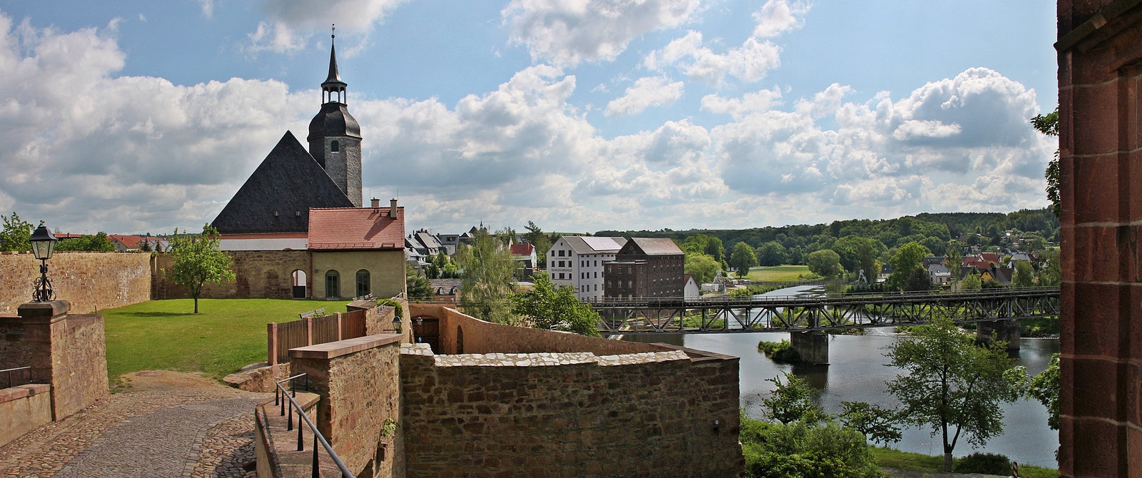 Rochlitz, Rochlitz castle and St.-Petri-Church.